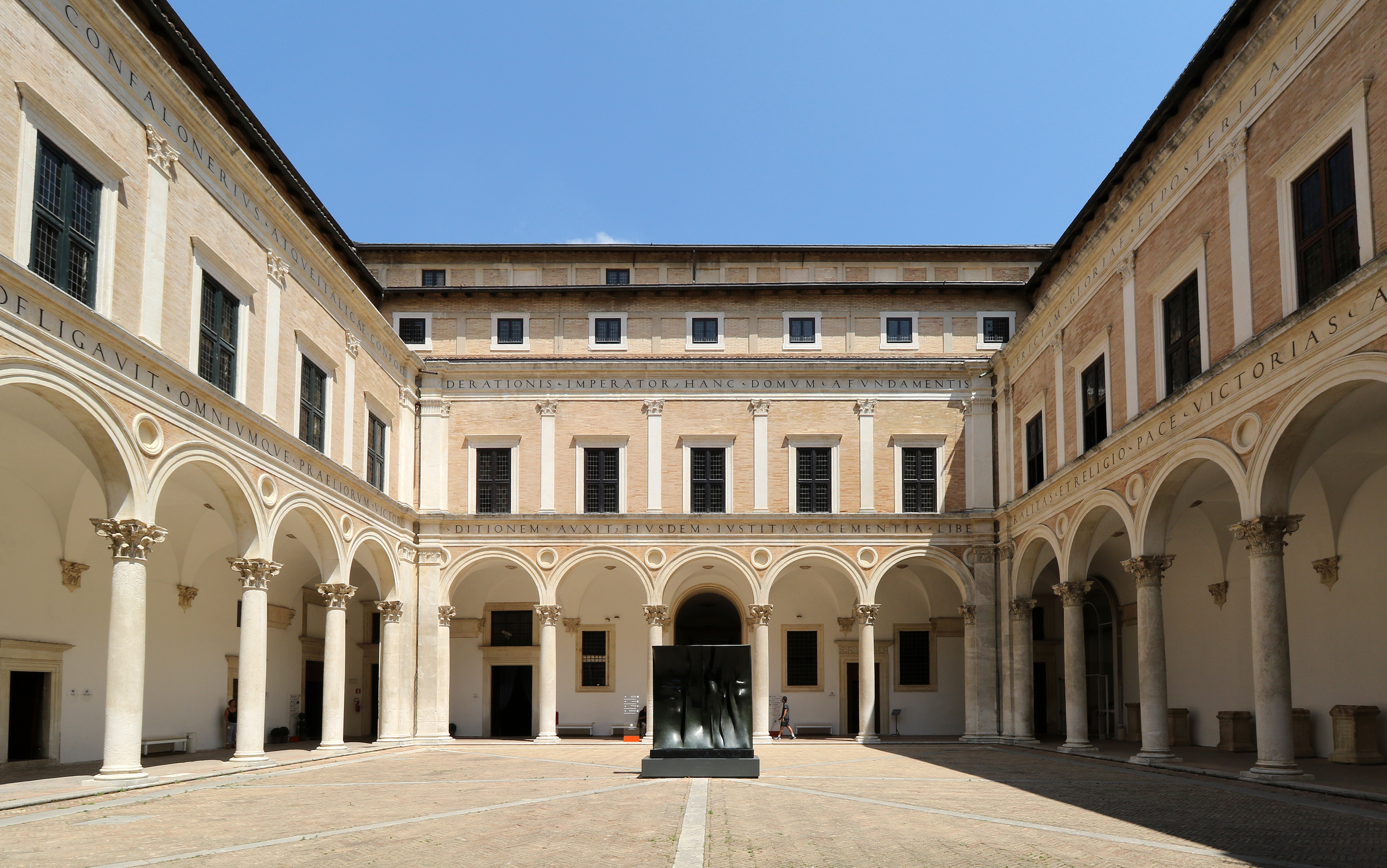 courtyard of honor - Ducal Palace Urbino